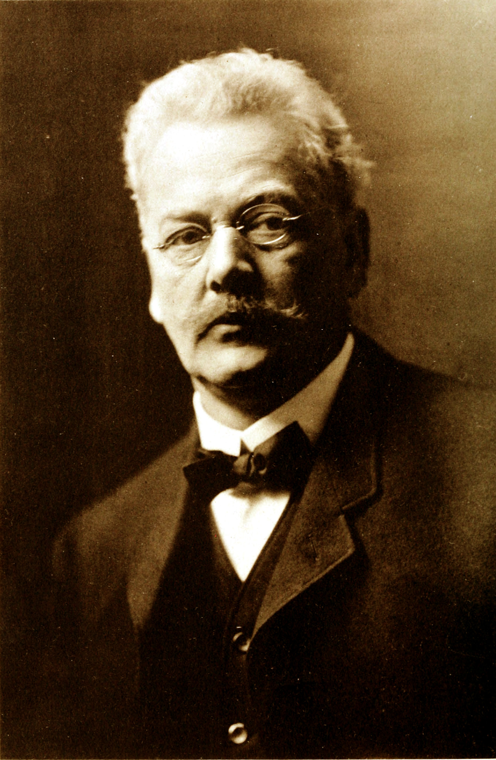 Curator of the department of botany of the Field Museum of Natural History, 1893-1923